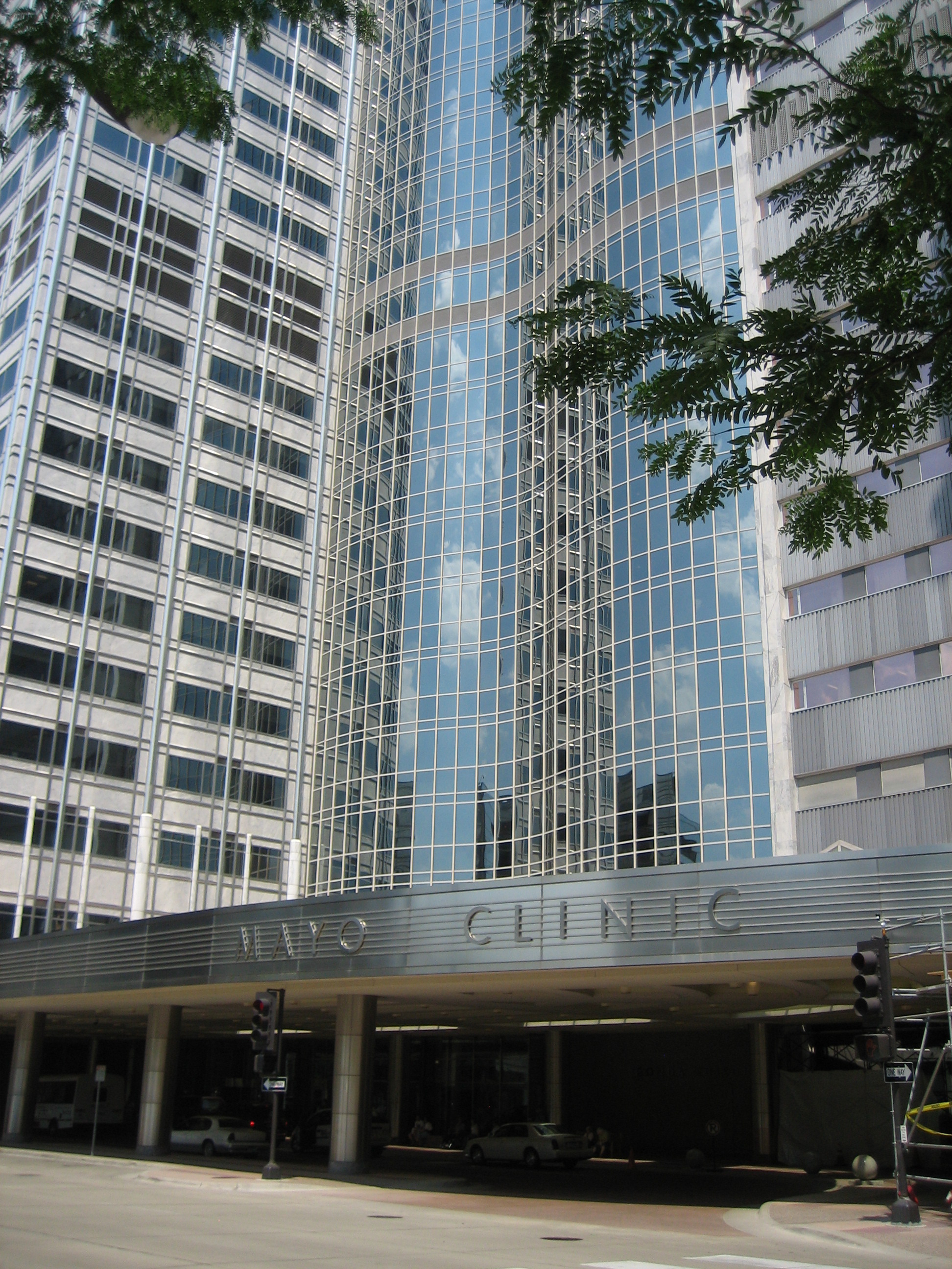 Mayo Clinic Rochester Minnesota - Gonda Building with trees - from 3rd Avenue SW.